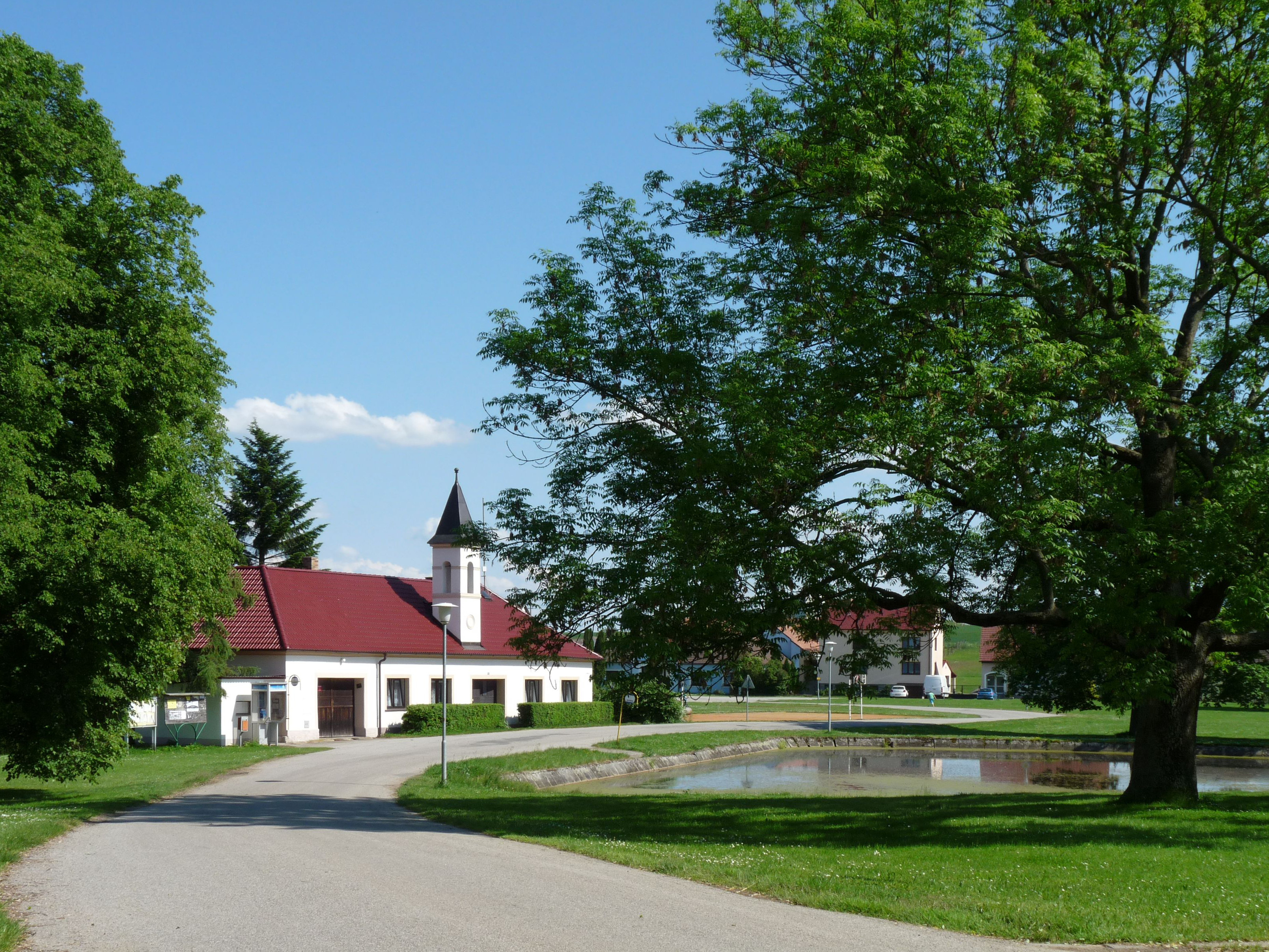 House No 33 and the pond in the village of Hlavatce, České Budějovice District, South Bohemian Region, Czech Republic.